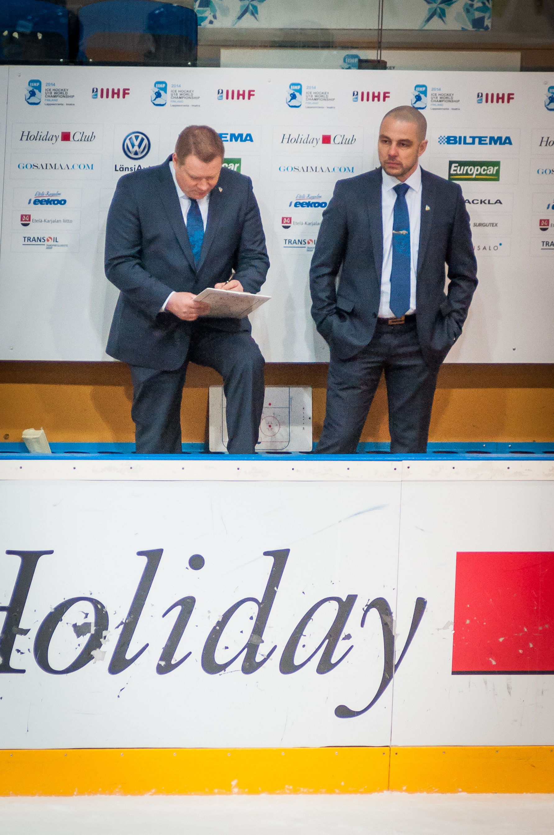 Team Finland's coaches Rauli Urama and Mikko Saarinen during the U-18 ice hockey orld championship tournament game against Sweden in Lappeenranta, Finland.